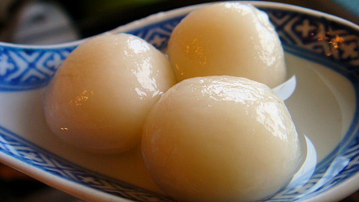 Home made Tangyuan, a typical Chinese food.